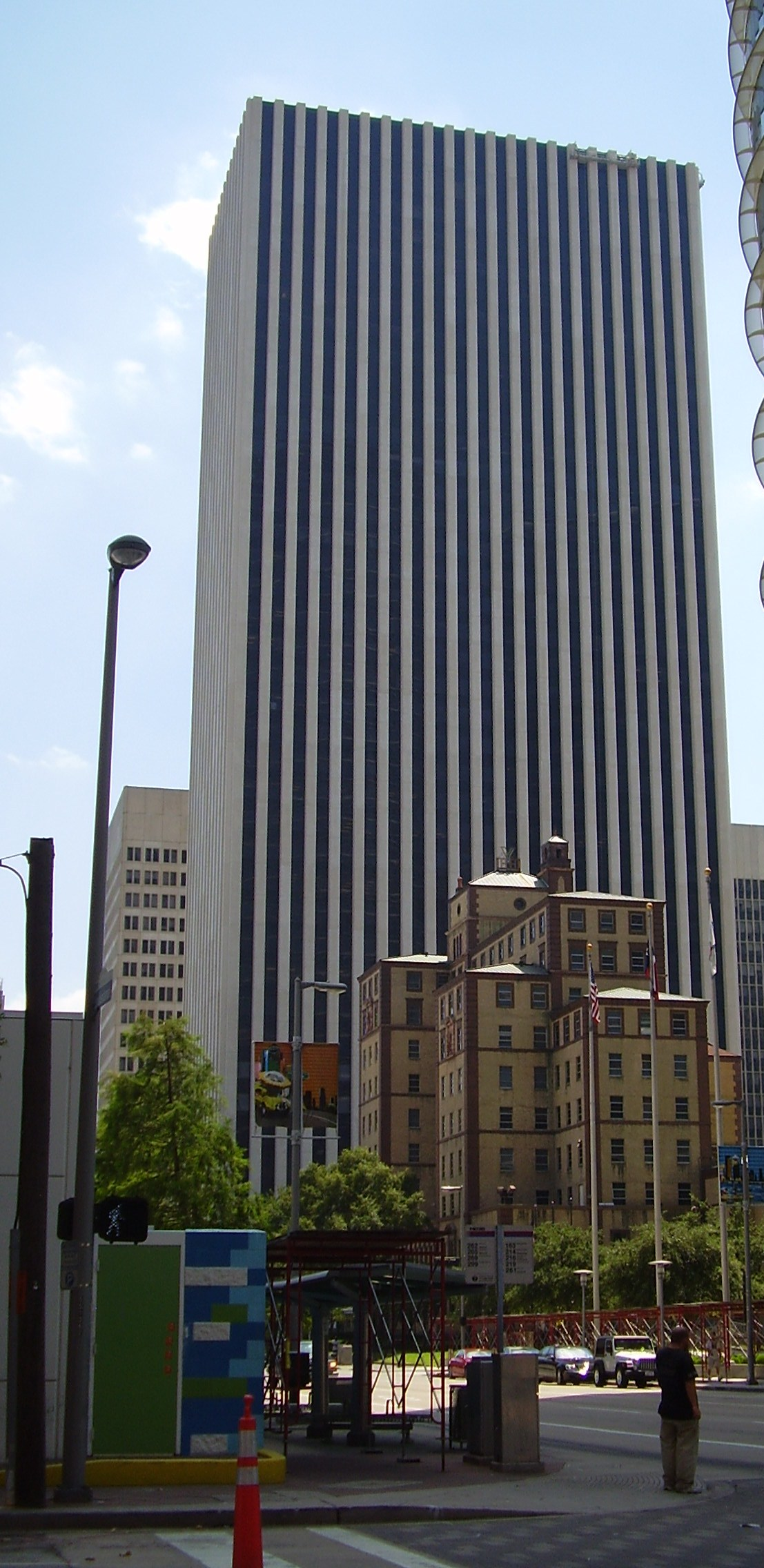 KBR Tower, part of the Cullen Center, with the former Downtown YMCA below